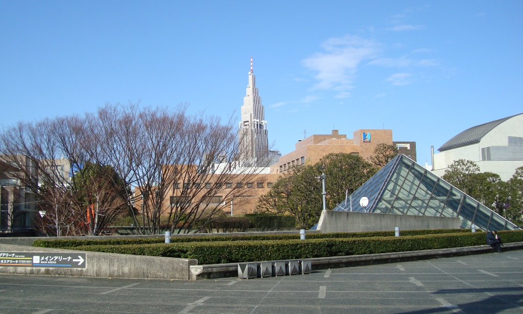 View of Sendagaya district, Tokyo's Shibuya city. The pyramid-shaped glass structure in front is a part of Tokyo Metropolitan Gymnasium and the tall building backward is the NTT Docomo Yoyogi Building.